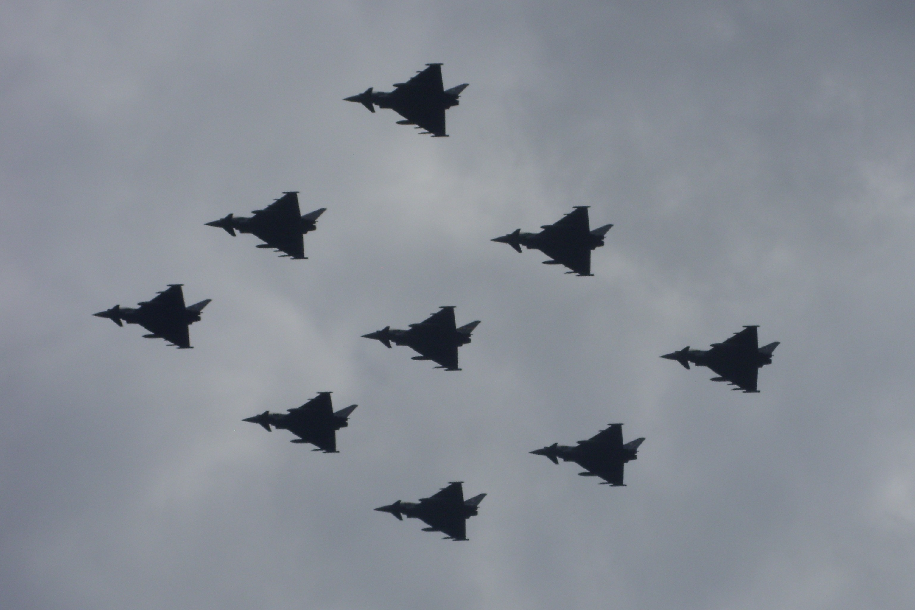 Nine Eurofighter Typhoon fighters of the Royal Air Force during a flypast over Windsor Castle during the Diamond Jubilee Armed Forces Parade and Muster